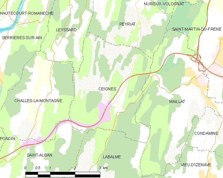 Map of French commune: Ceignes Map commune FR insee code 01067.png